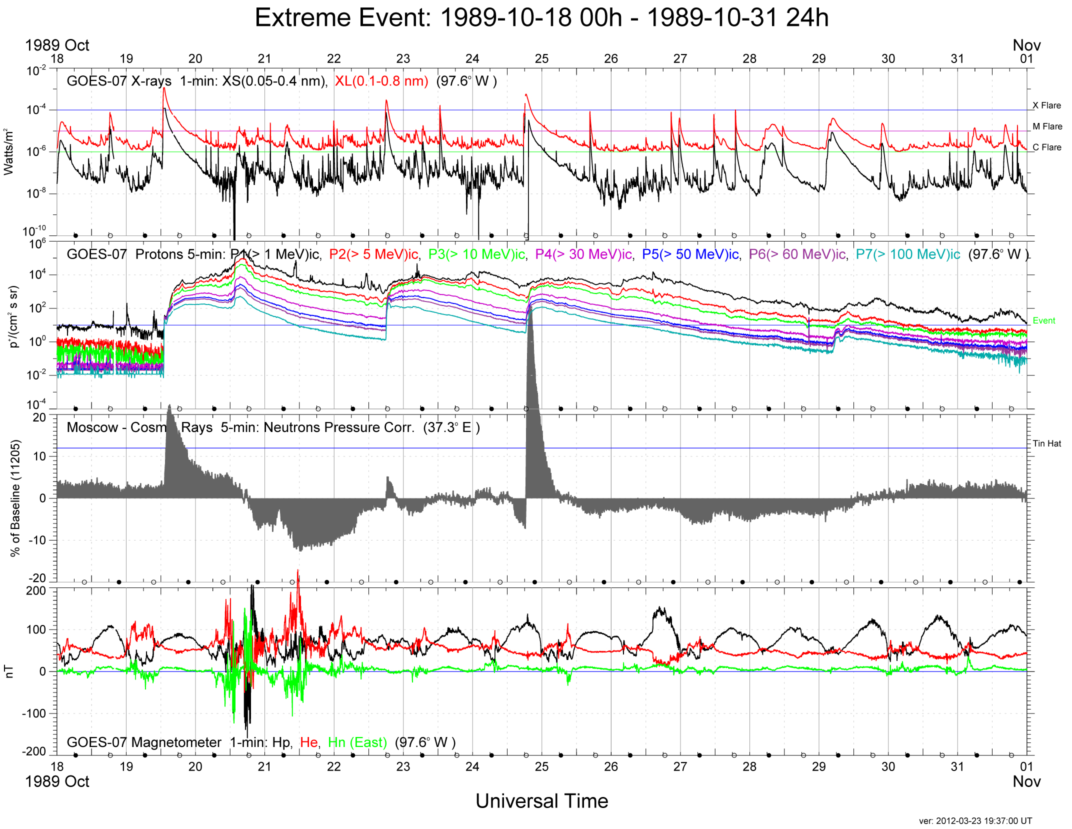 Extreme space weather event -- October 1989.